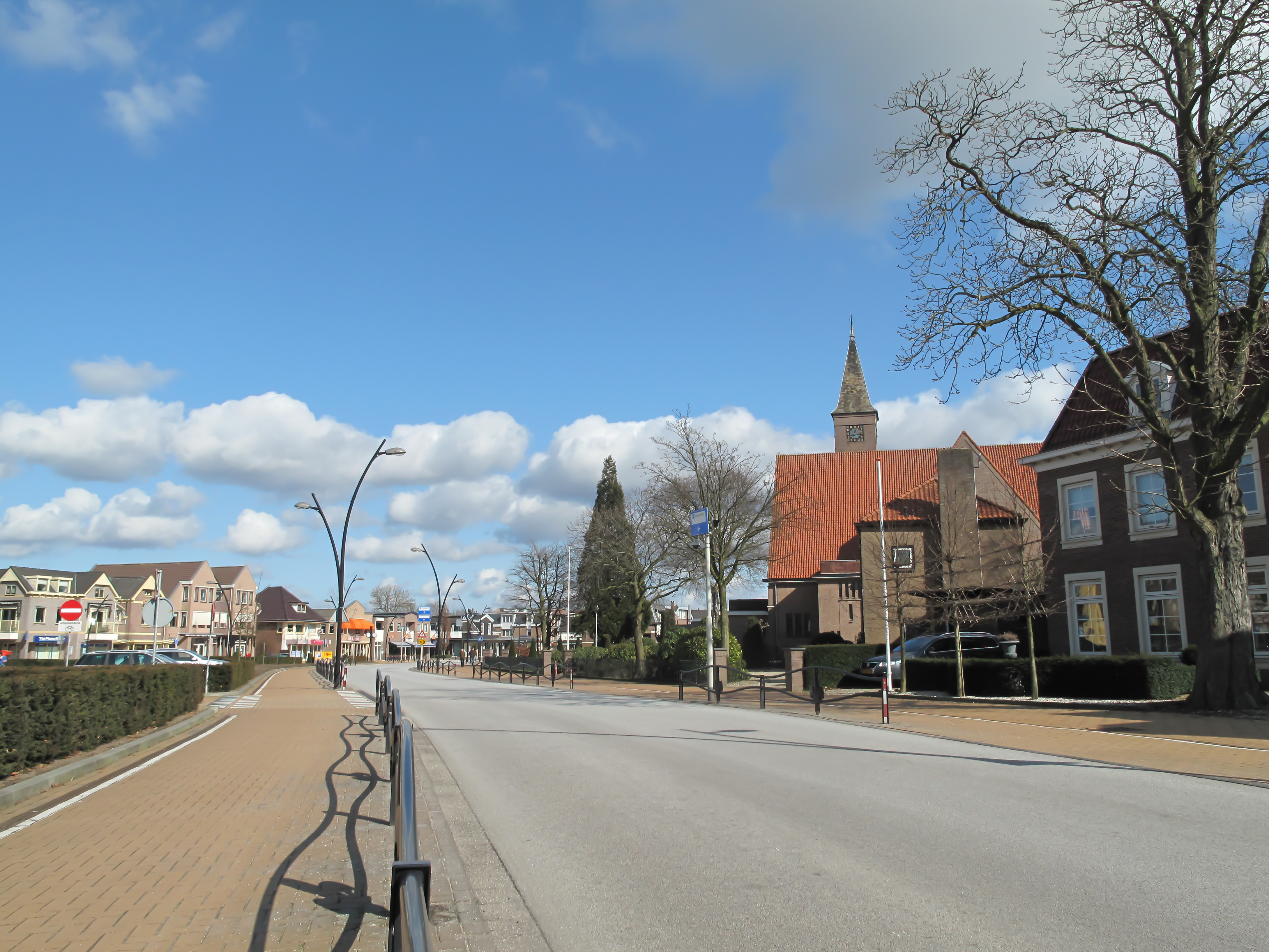 Voorthuizen, street with church in the background